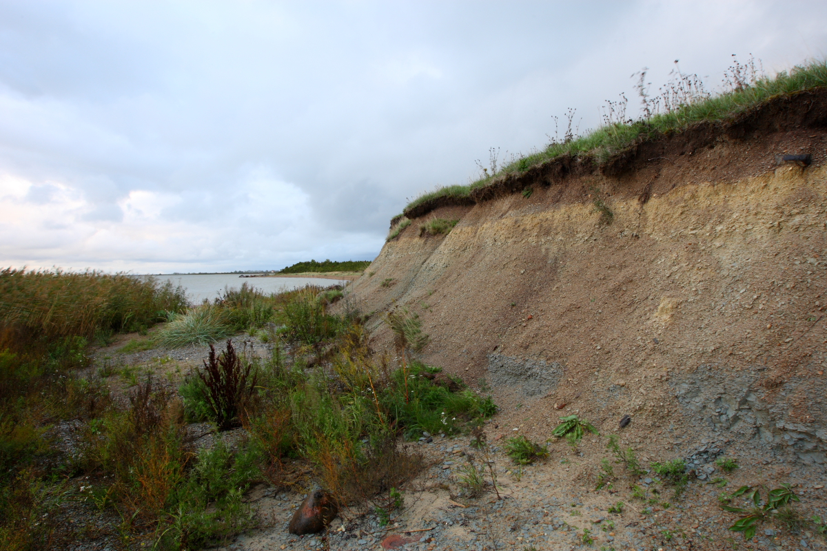 Uisu, Lääne County, Estonia